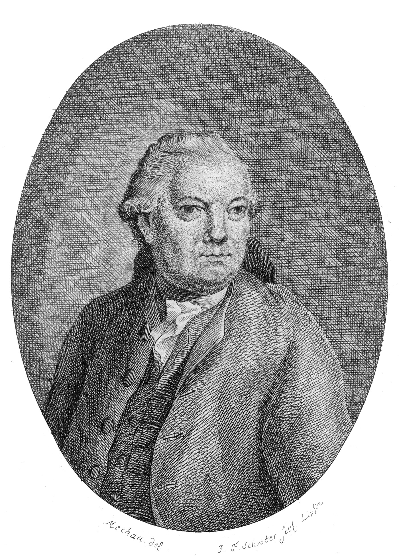 Depicted person: Georg Benda